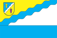 Flag of Ovidiopol Raion of Odessa Oblast, Ukraine (old version)